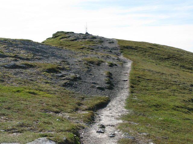 Approaching the summit of Meall nan Tarmachan The summit cairn clearly visible.